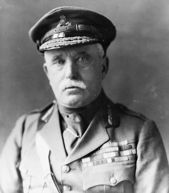 Field Marshal Sir John French, Earl of Ypres, was born in 1852. After serving briefly with the Royal Navy, he joined the Army in 1874, serving in the Sudan and South Africa during the Anglo-Boer Wars. During 1912 - 1913, French served as Chief of the Imperial General Staff rising to the rank of Field Marshal in 1913. French was given command of the British Expeditionary Force on the outbreak of the First World War but his erratic performance led to his replacement by Haig in 1915. French was subsequently given command of the British Home Front for the remainder of the First World War, during which time he was required to quell the 1916 Easter Rising in Ireland. Sir John French died in 1925. Faces of the First World War Find out more about this First World War Centenary project at This image is from IWM Collections. The Museum released this image on a custom licence - IWM Non-Commercial license. However where the photograph has no known author, these are public domain under the 70 rule and where they were owned by the Ministry of Information, any other government department or agency, taken by a member of the military during their service or by a photographer commissioned by the services, these are now out of copyright restriction.